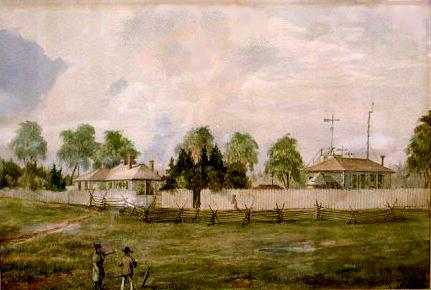 Painting of the original Toronto Magnetic and Meteorologic Observatory. Originally uploaded to English Wikipedia by Maury Markowitz on 28 August 2007